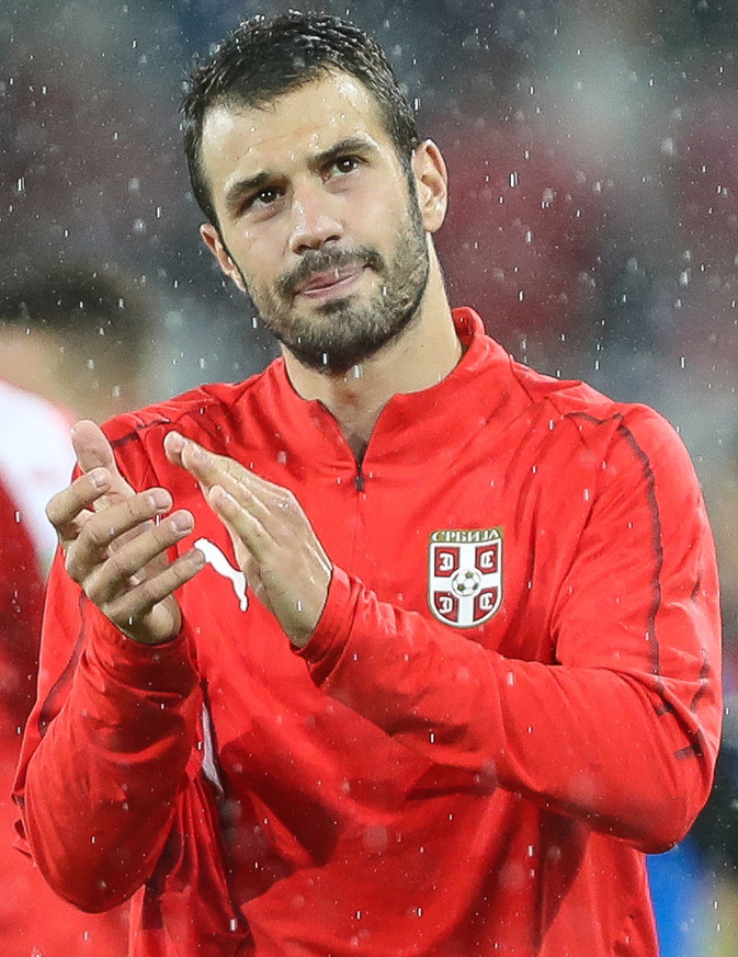 Serbian footballer Luka Milivojević on 22 June 2018, after the 2018 FIFA World Cup group stage match between Serbia and Switzerland.